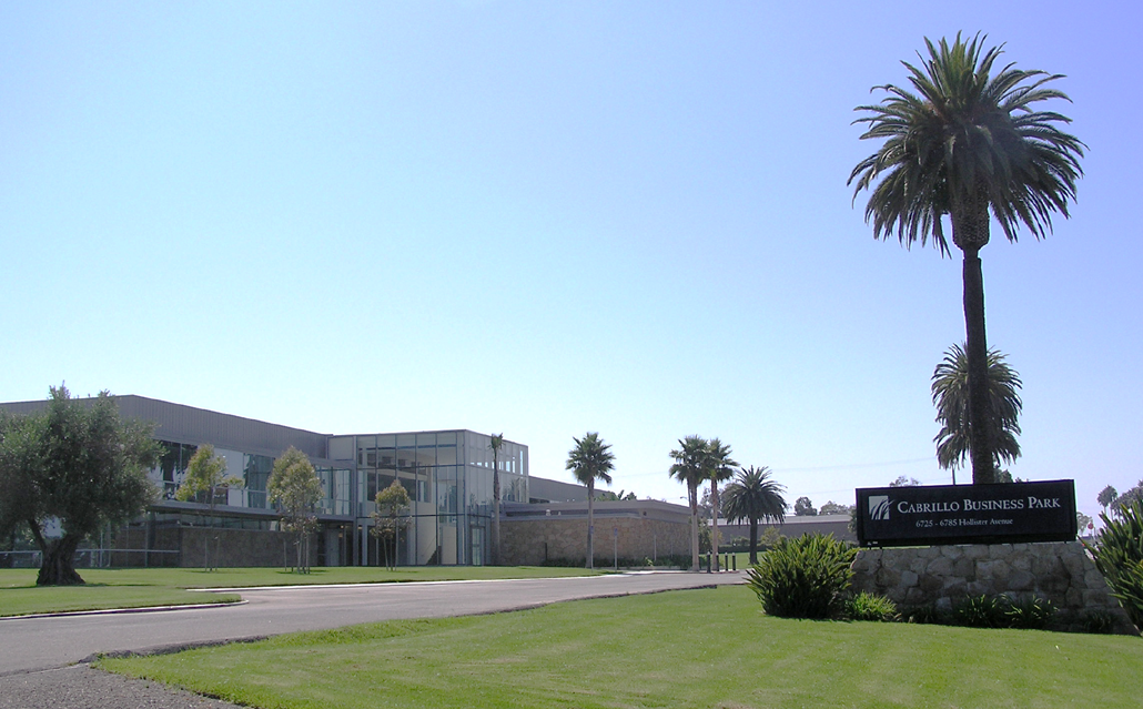 Cabrillo Business Park in Goleta, Santa Barbara County, California, USA The photograph was taken by Alan Mak on September 5th, 2005.